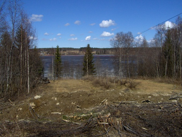 Ice leaving Jormuanlahti Bay, Kajaani, Finland, spring 2012, At the back visible a red oil containment boom